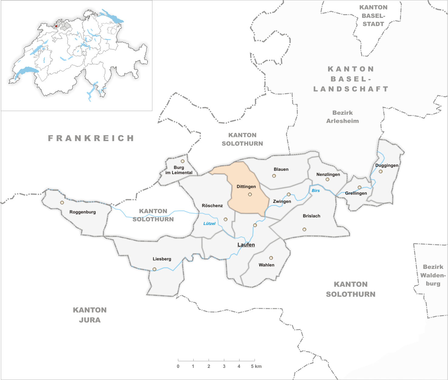 Municipality Dittingen